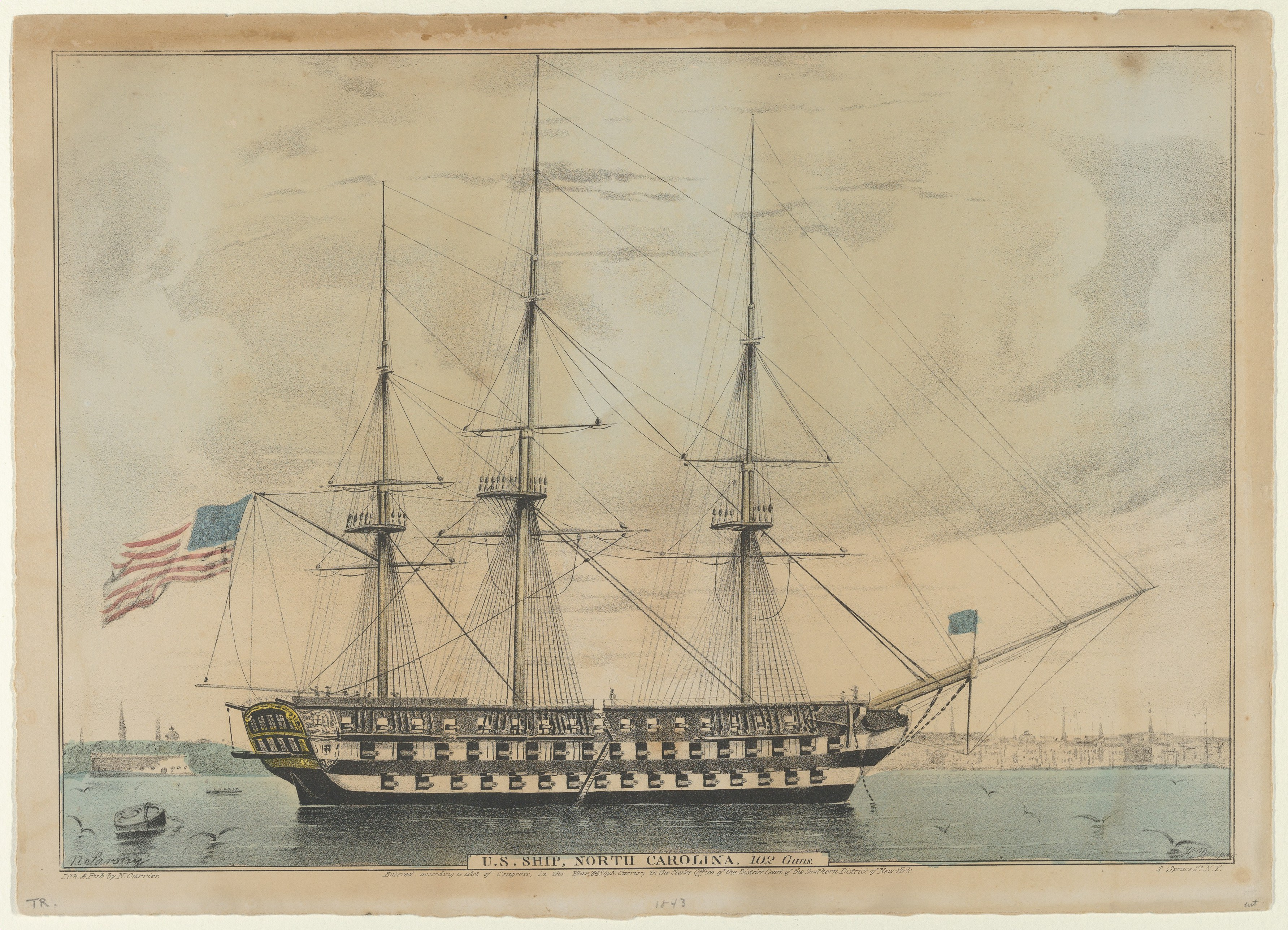 Print; Prints